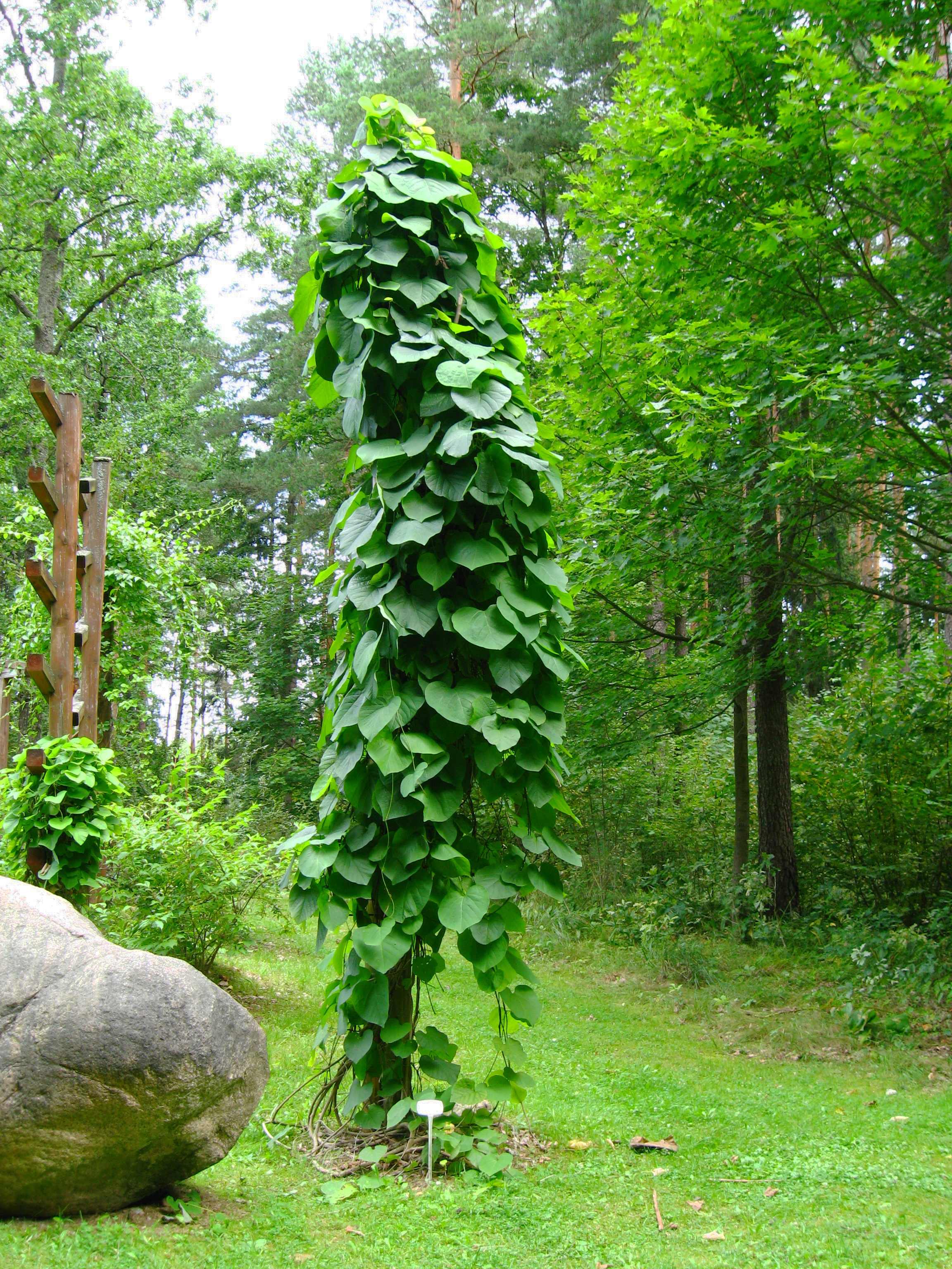 Pipevine (Aristolochia macrophylla)